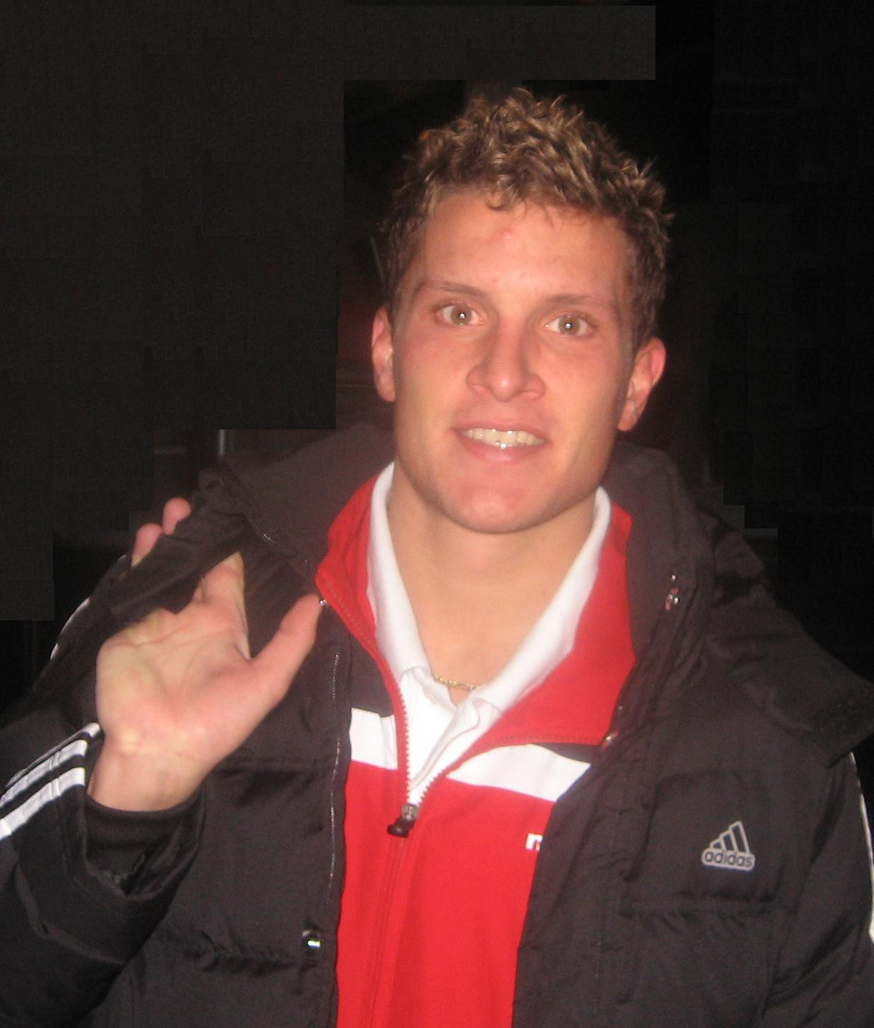 Jan Kristiansen (Jan Kristiansen, Jan Kristiansen, Jan Kristiansen), a soccer player from Denmark. Photo taken 2007 Photo by User:Jarlhelm